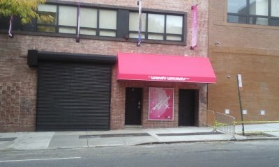 Outside of AMV 53rd Street where The Wendy Williams Show is taped live